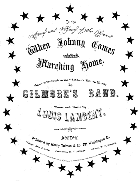 Cover of sheet music for "When Johnny Comes Marching Home" words and music by “Louis Lambert” (Patrick Sarsfield Gilmore), Boston: Henry Tolman & Co., 1863